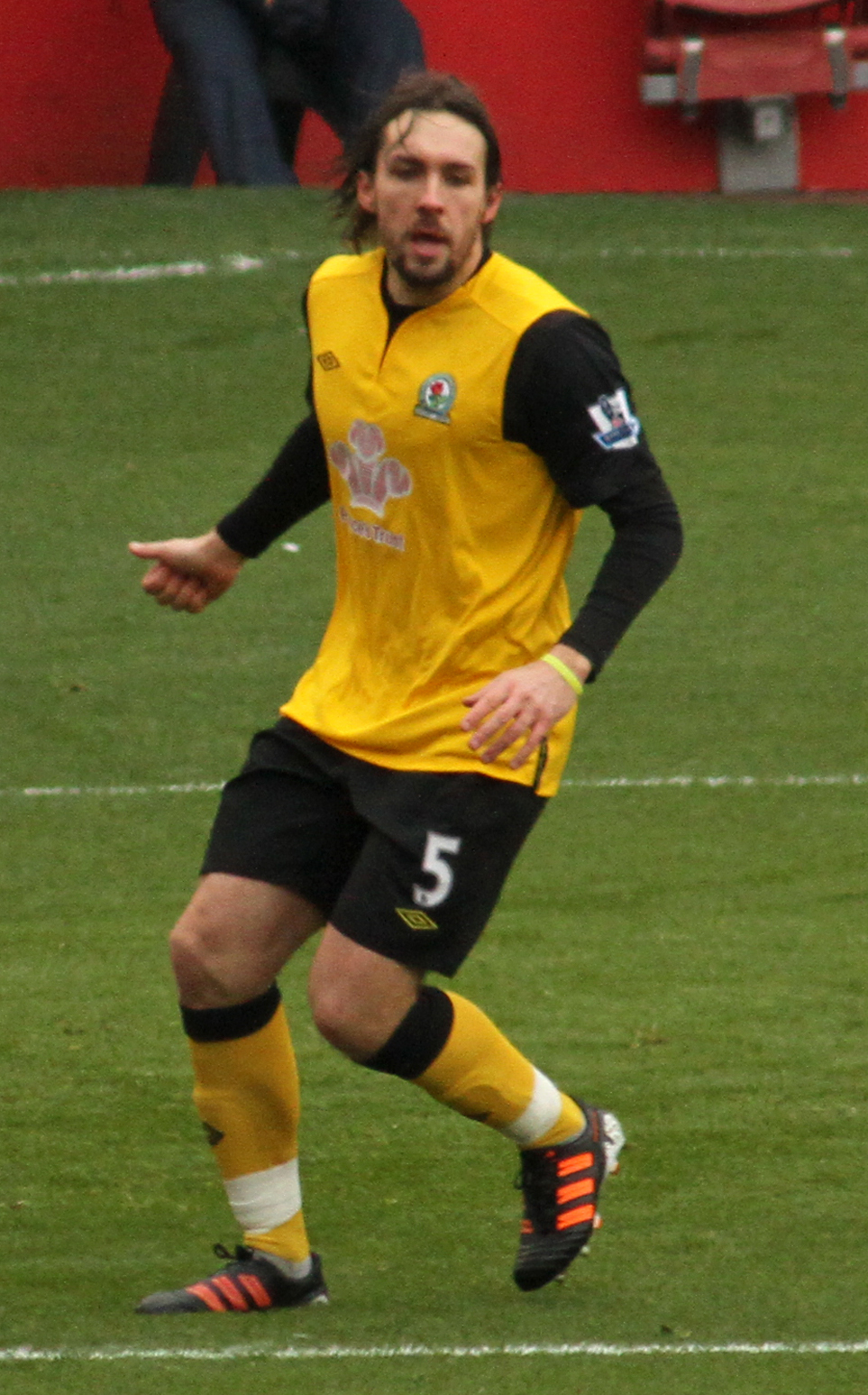 Theo Walcott cross to RVP 2